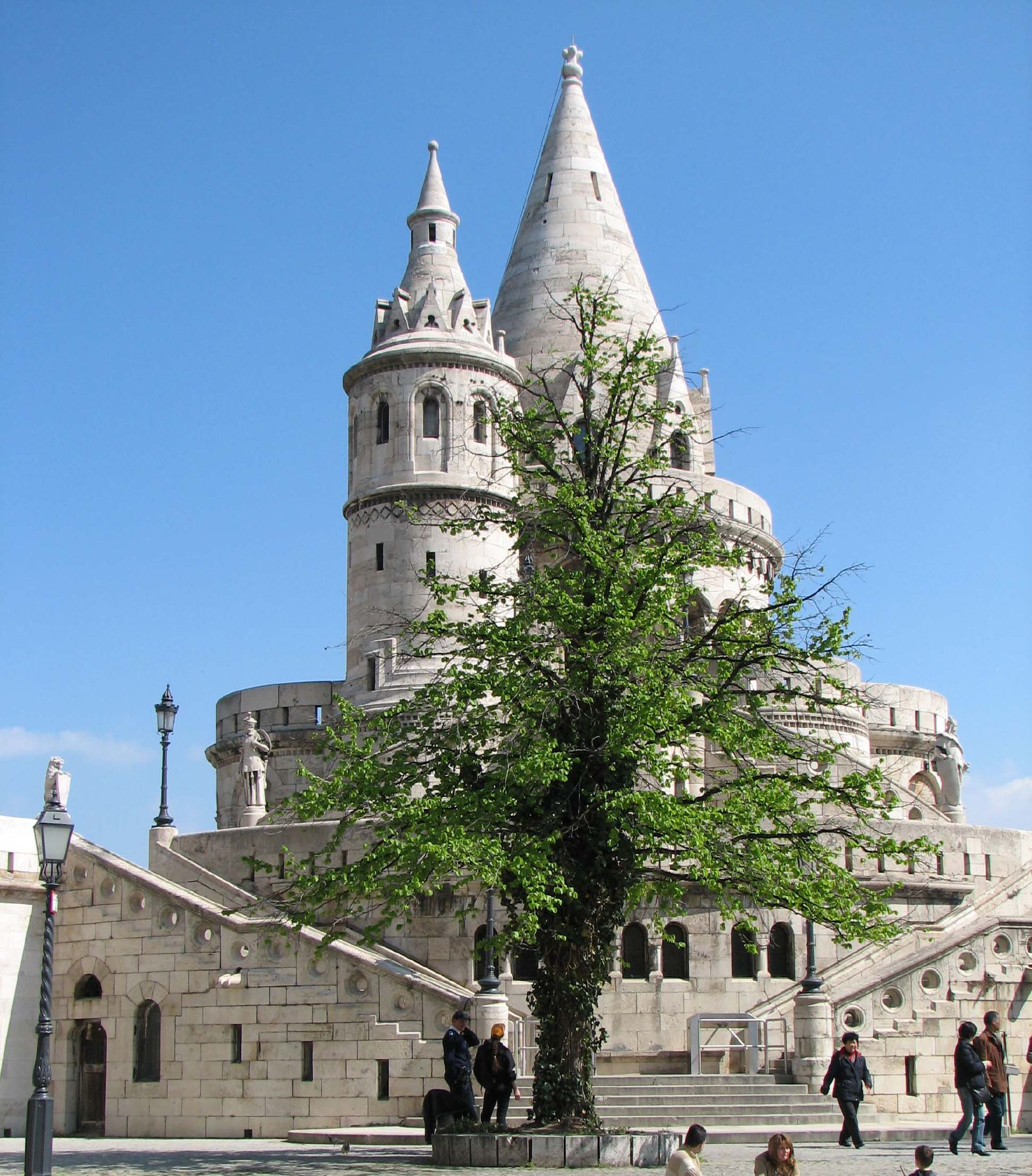 Fisherman's Bastion 03